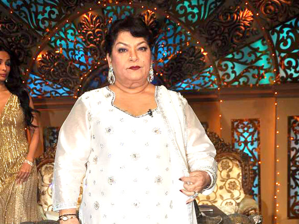 Saroj khan nachle ve with saroj khan